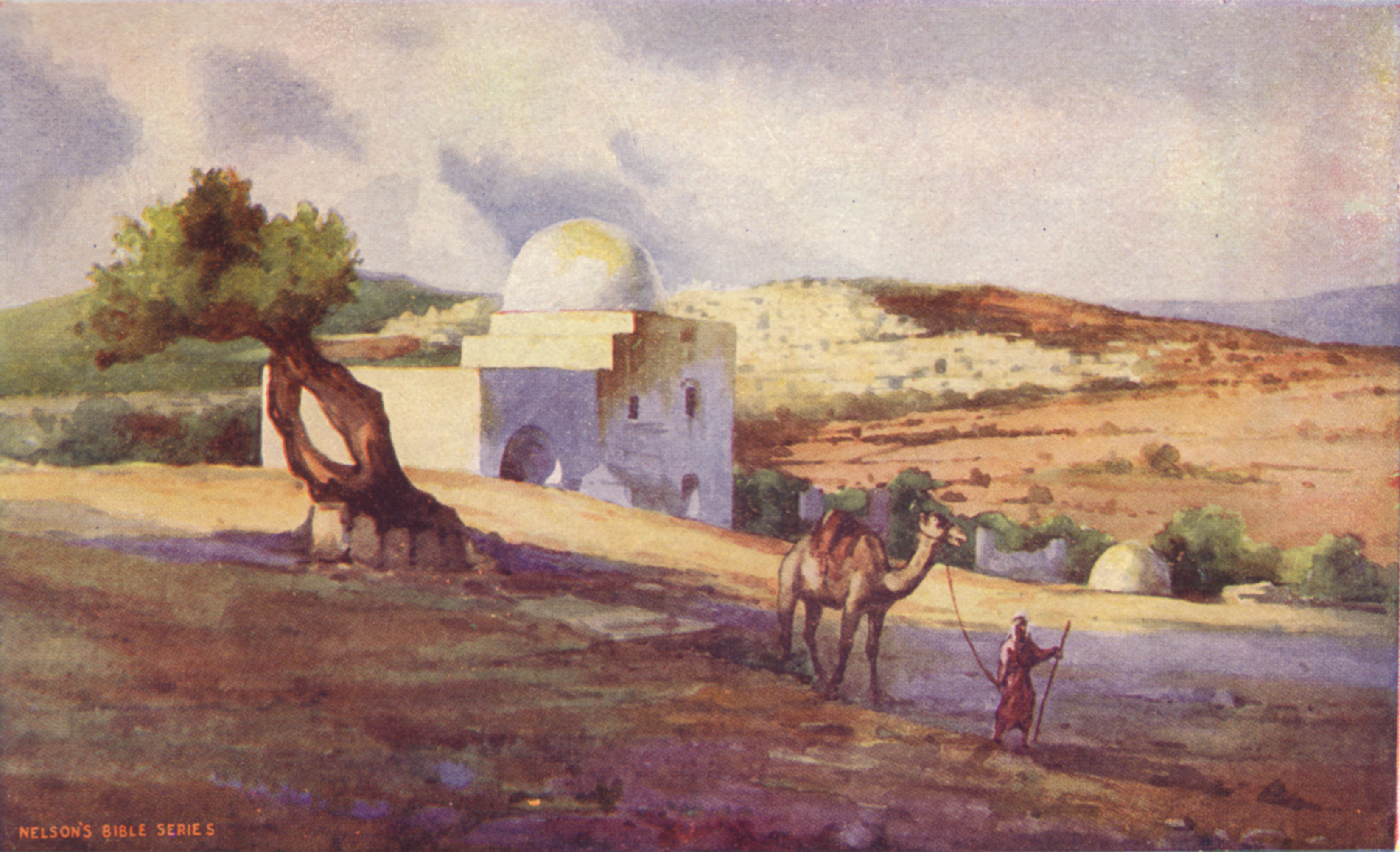 Painting of the Tomb of Rachel